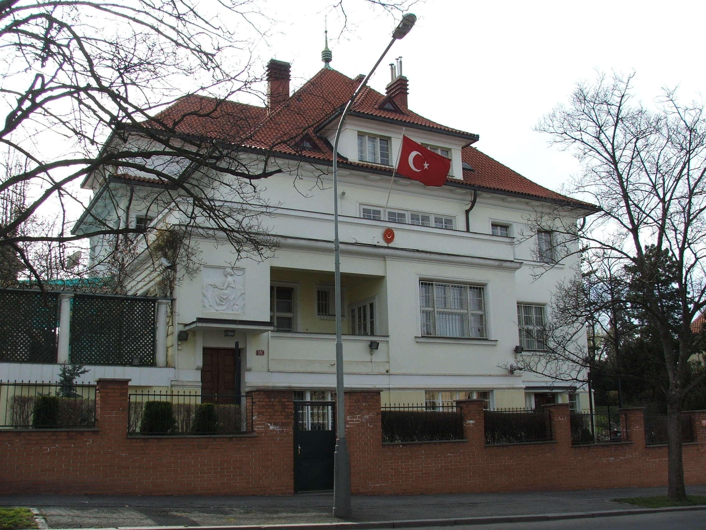 Embassy of Turkey in Prague - Střešovice, Czechia.